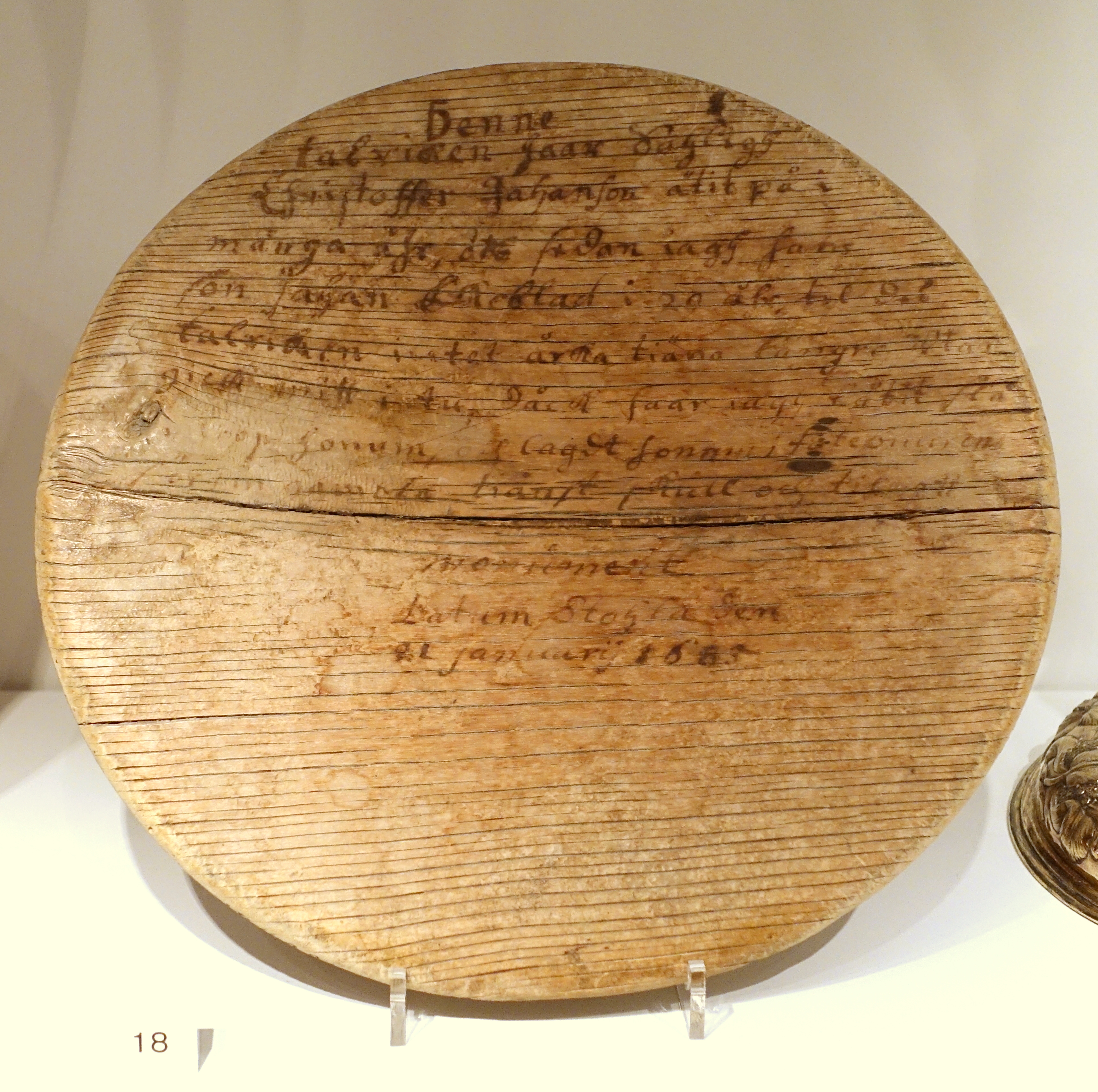 Exhibit in the Nordiska museet - Stockholm, Sweden. This work is in the public domain because the artist(s) died more than 70 years ago.